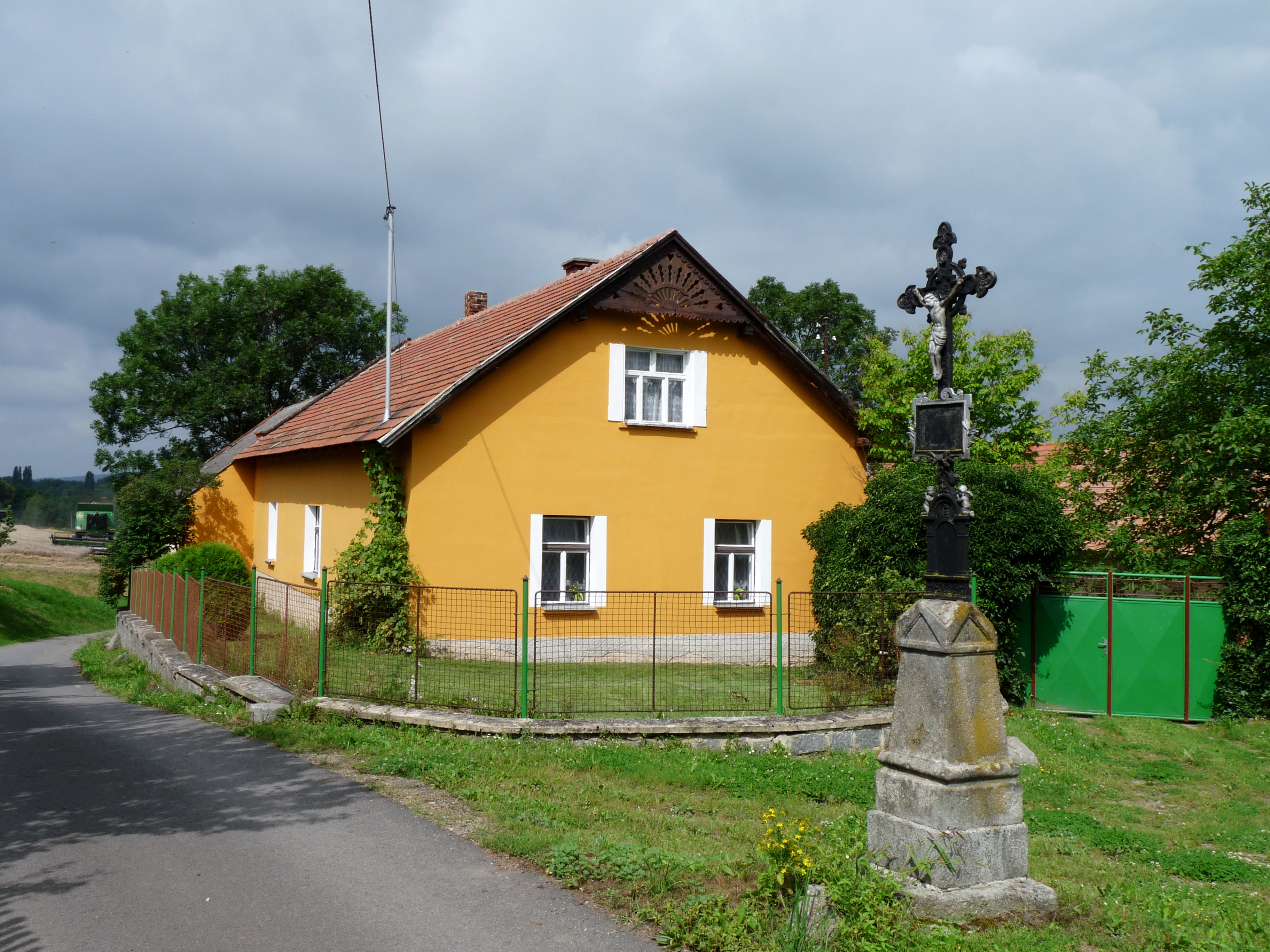 House No 4 in Zadní Chlum, a village in Příbram District, Central Bohemian Region, Czech Republic.